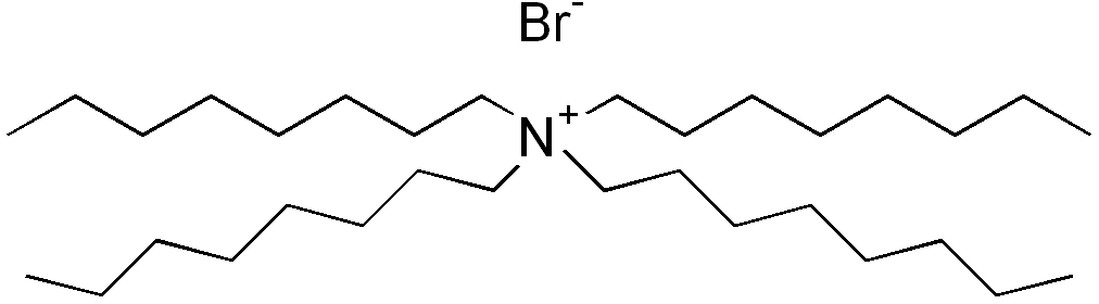 chemical structure of tetraoctylammonium bromide (TOAB)